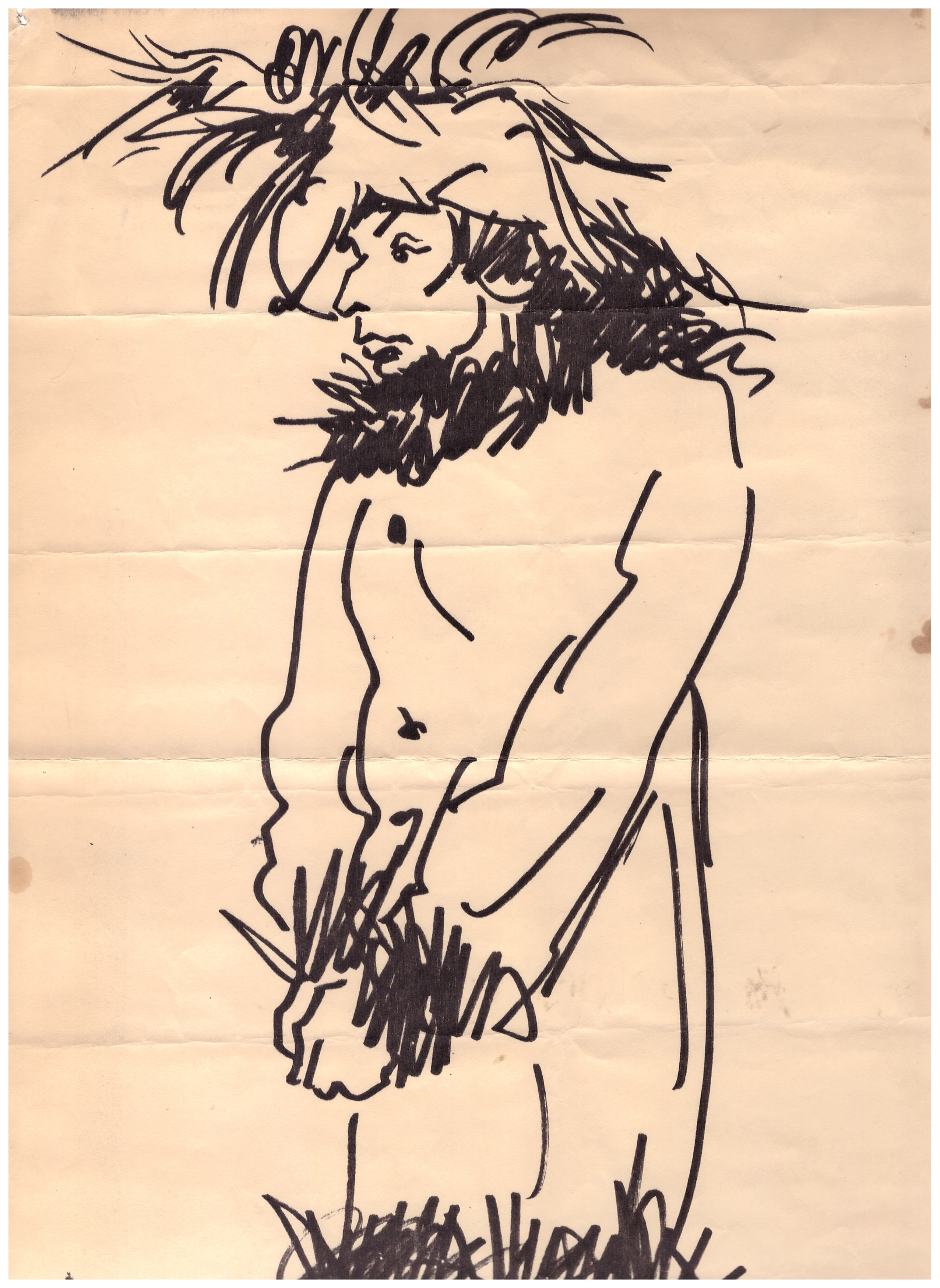 Original of a sketch published in El Pais